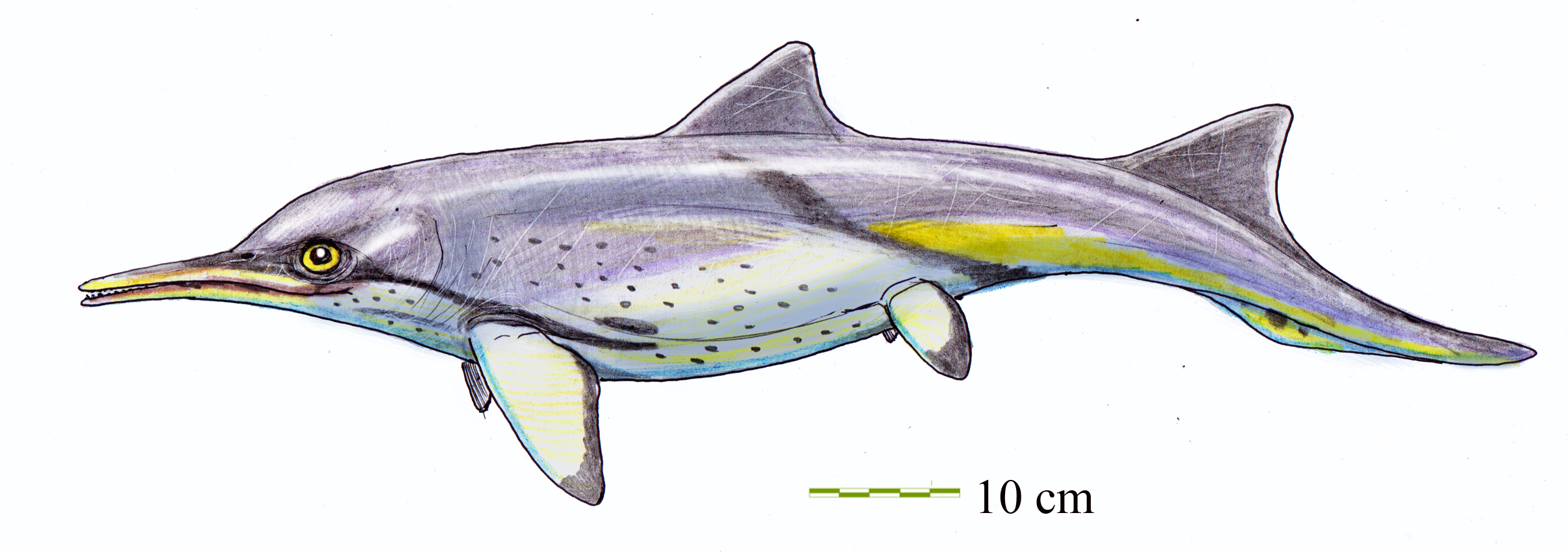 Primitive ichthyosaur Phalarodon. mid Triassic of Tethys ocean